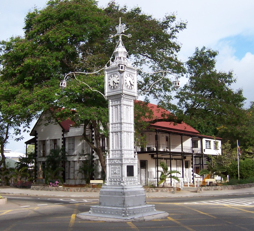 The famous Big Ben monument in the center of Victoria, capital of Seychelles